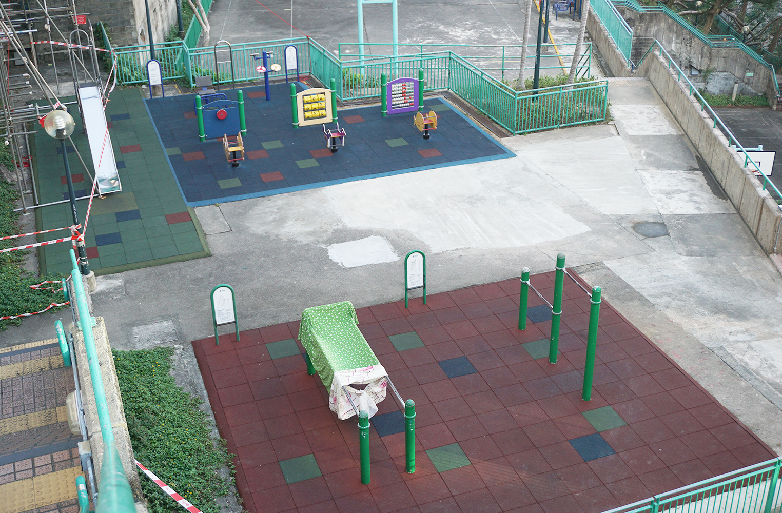 Hing Man Estate in Chai Wan, Hong Kong.